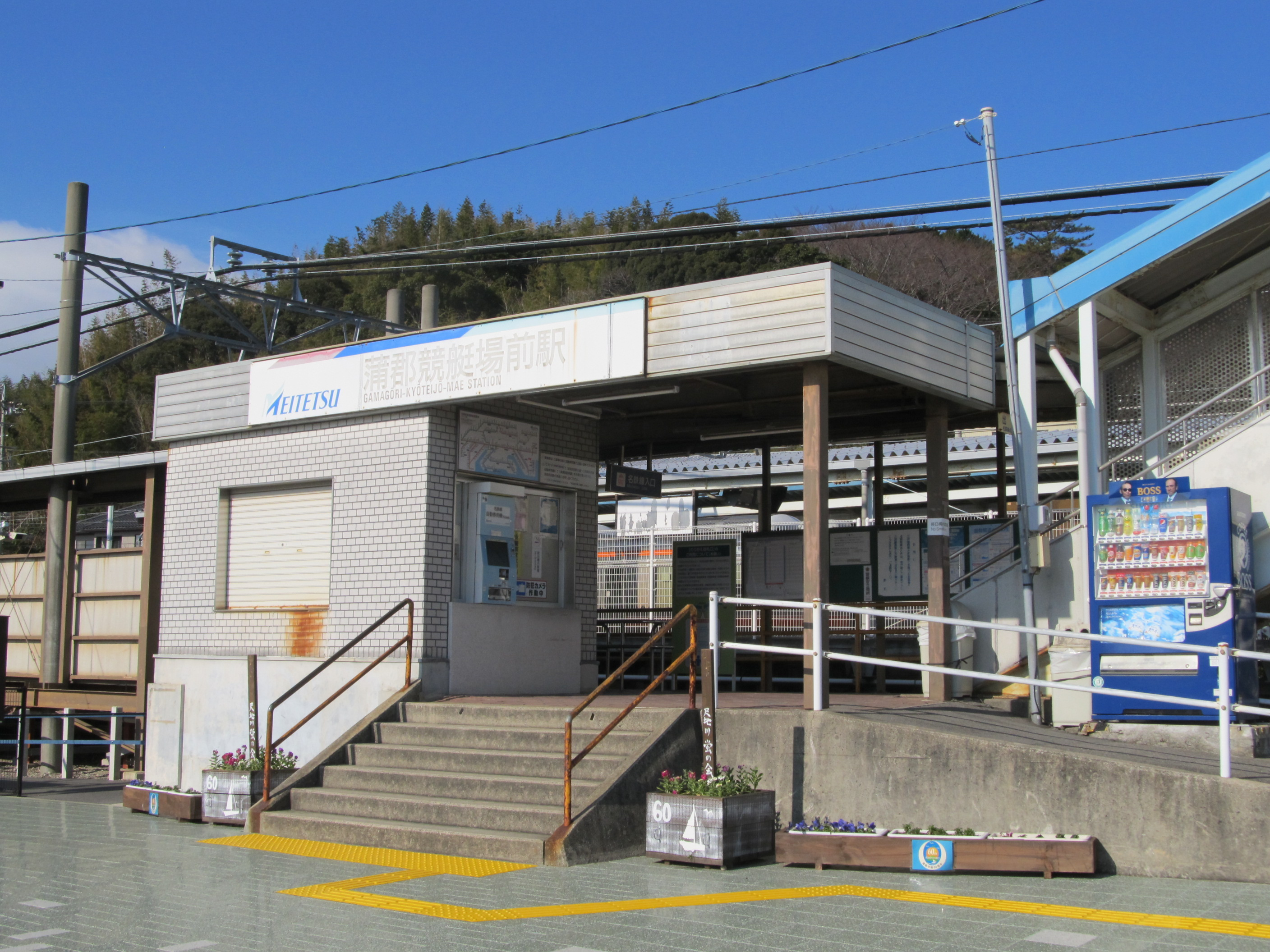 Nagoya Railroad Gamagōri Line Gamagōri-Kyōteijō-Mae Station Building